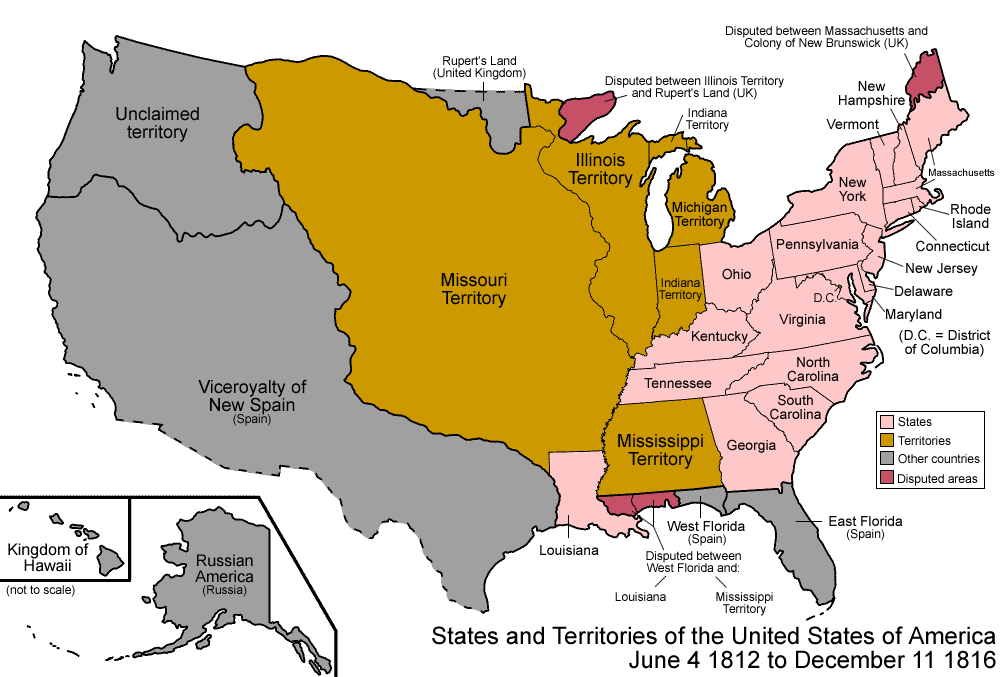 Map of the states and territories of the United States as it was from June 1812 to 1816. On June 4 1812, to minimize confusion, Louisiana Territory was renamed Missouri Territory. On December 11 1816, the southern portion of Indiana Territory was admitted as the state of Indiana; the rest became unorganized.